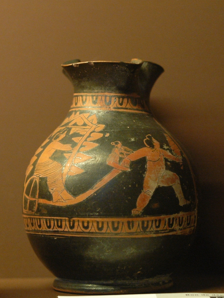 Attic red-figure oinochoe (wine jug) used for the Athenian festival of Anthesteria, in honour of Dionysos. Represents a young boy pulling another boy's chariot; maybe a parody of the hierogamy performed during the festival. Terracotta, ca. 430–390 BC.